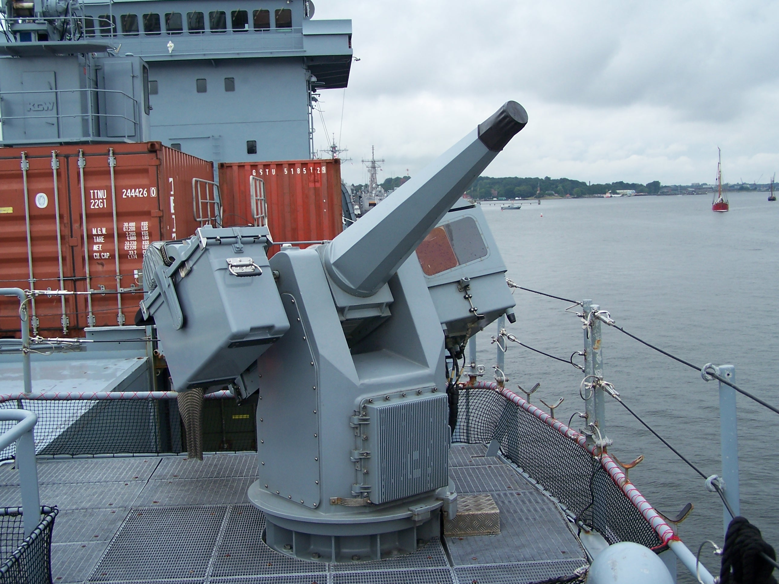 MLG27 onboard Elbe Class Tender Rhein at the Kiel Week 2007.